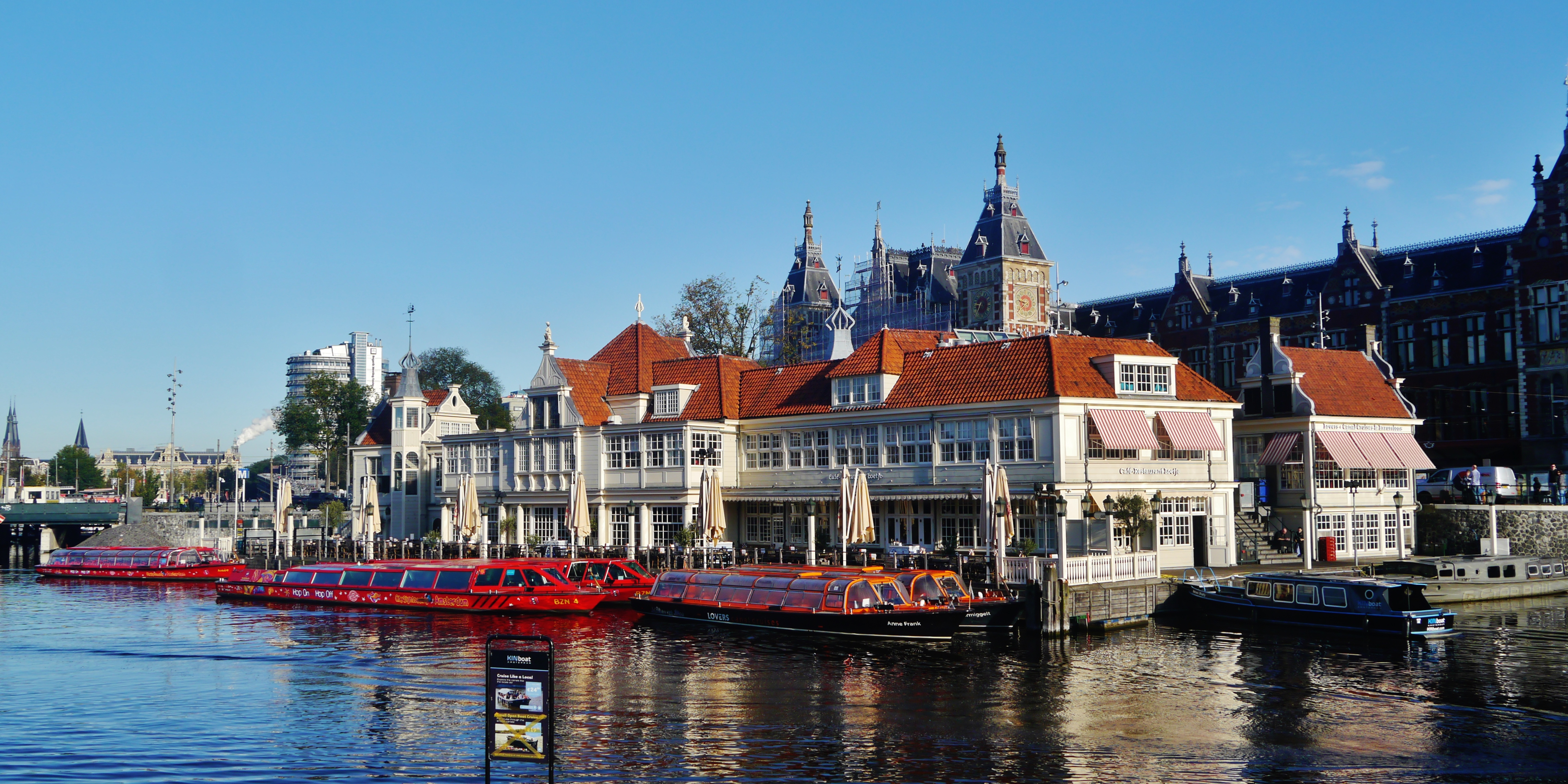 Station Square, Amsterdam, Province of North Holland, Netherlands